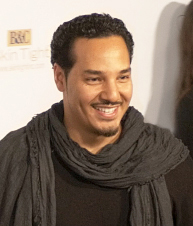 Graham Goddard in Hollywood, CA at movie premiere.